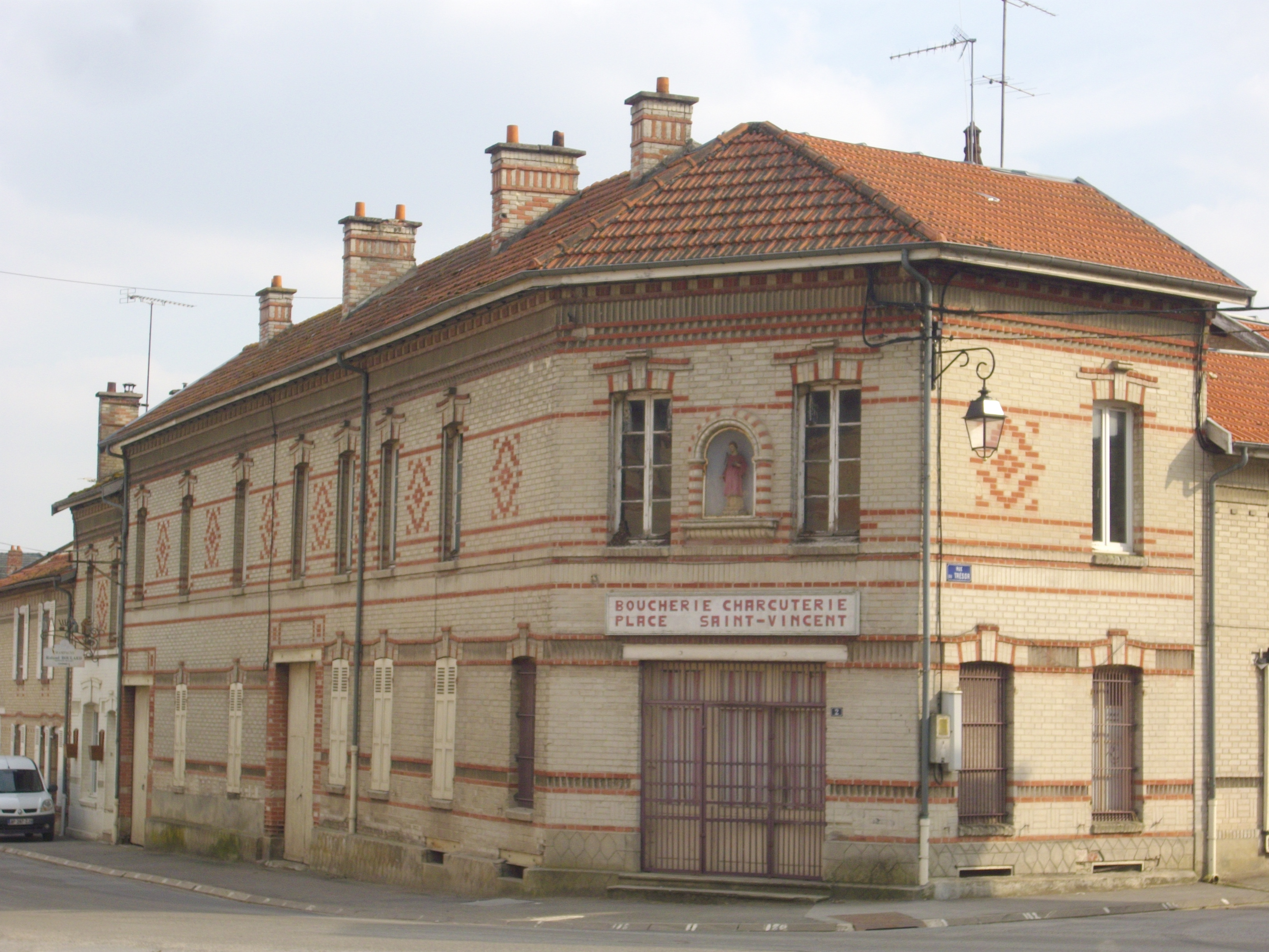 Butcher's shop, corner of Saint Vincent square and Treasure street, in Cormicy (Marne, France)